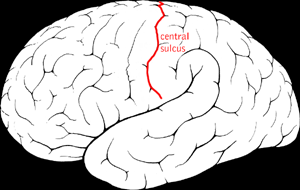 Central sulcus of the human brain. Copyright information Diagram by User:jimhutchins.